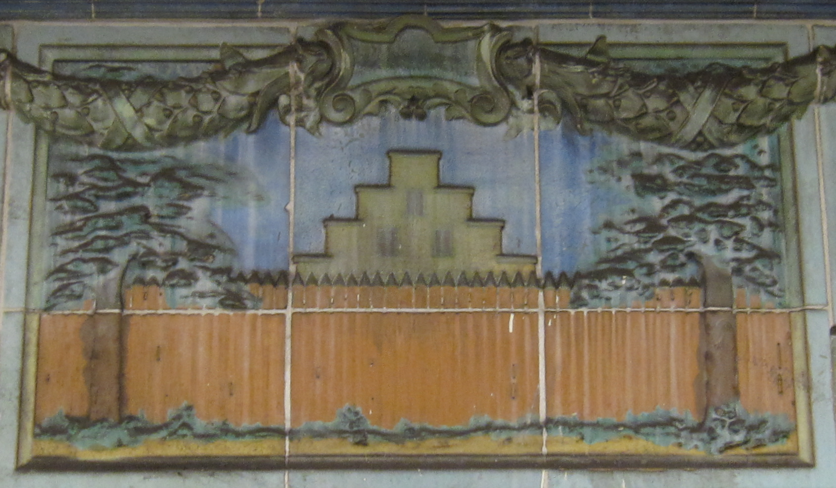 Wall Street (IRT Lexington Avenue Line)